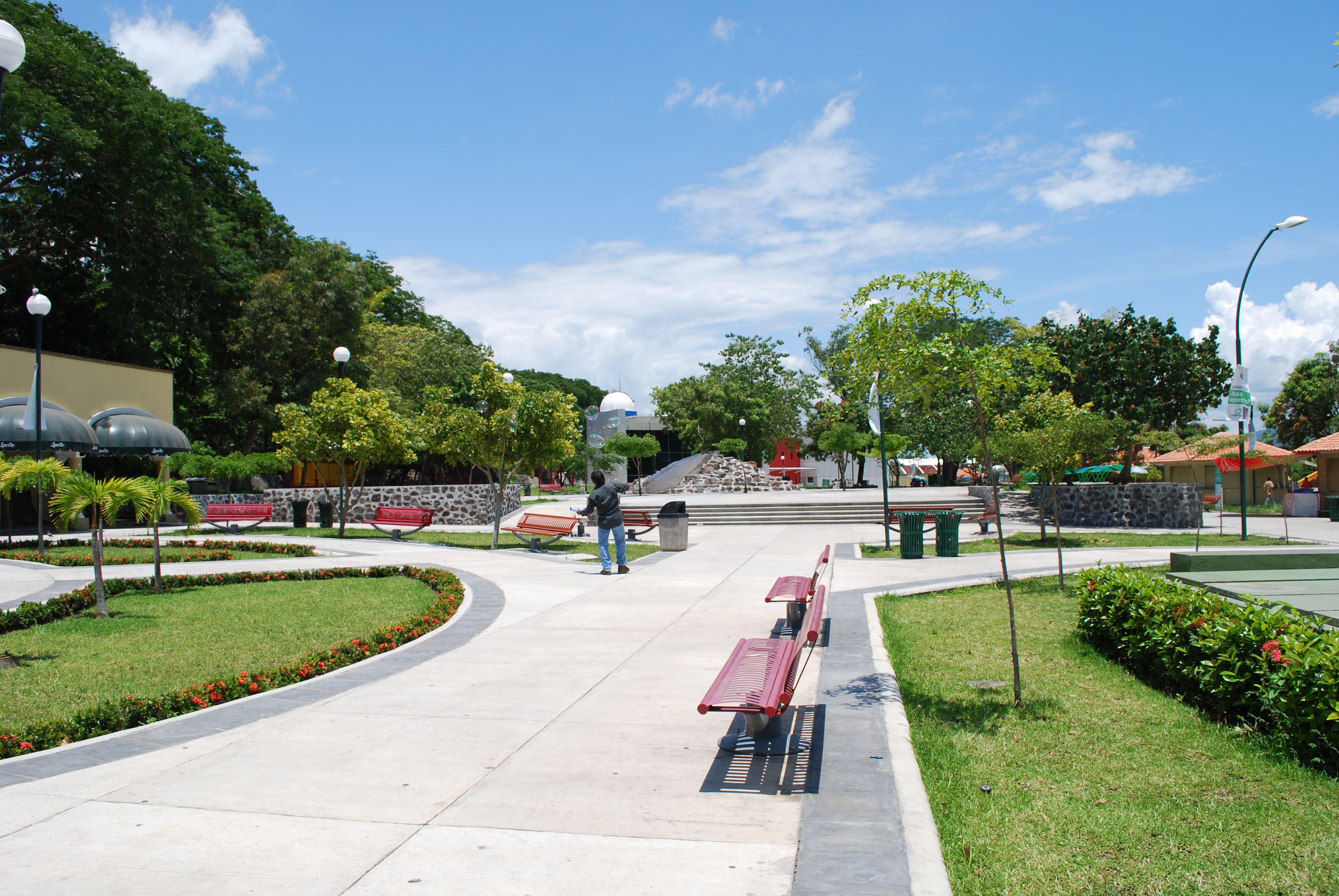 View inside the Parque Piedra Lisa